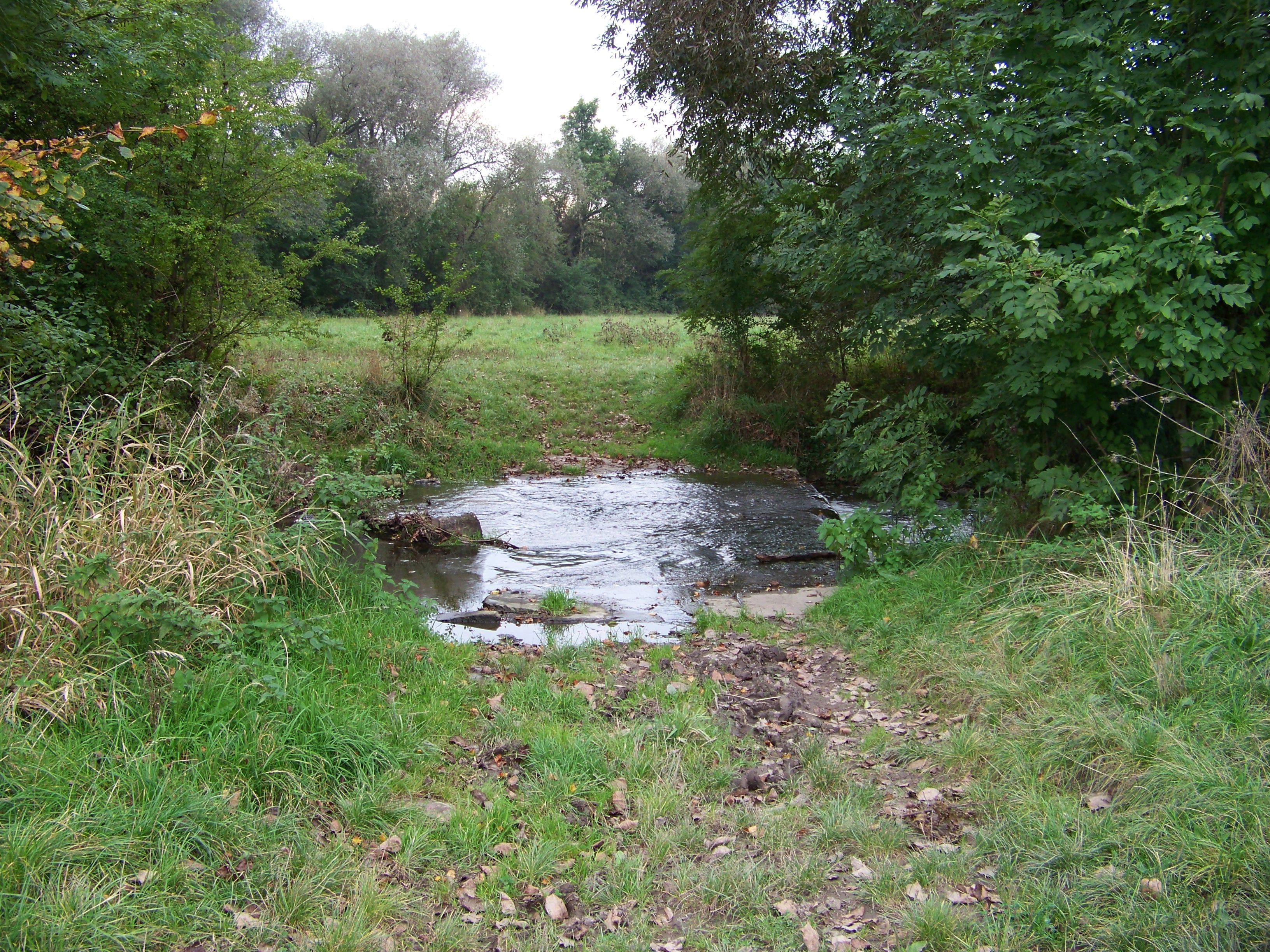 Prague-Dubeč, Czech Republic. Říčanka creek.